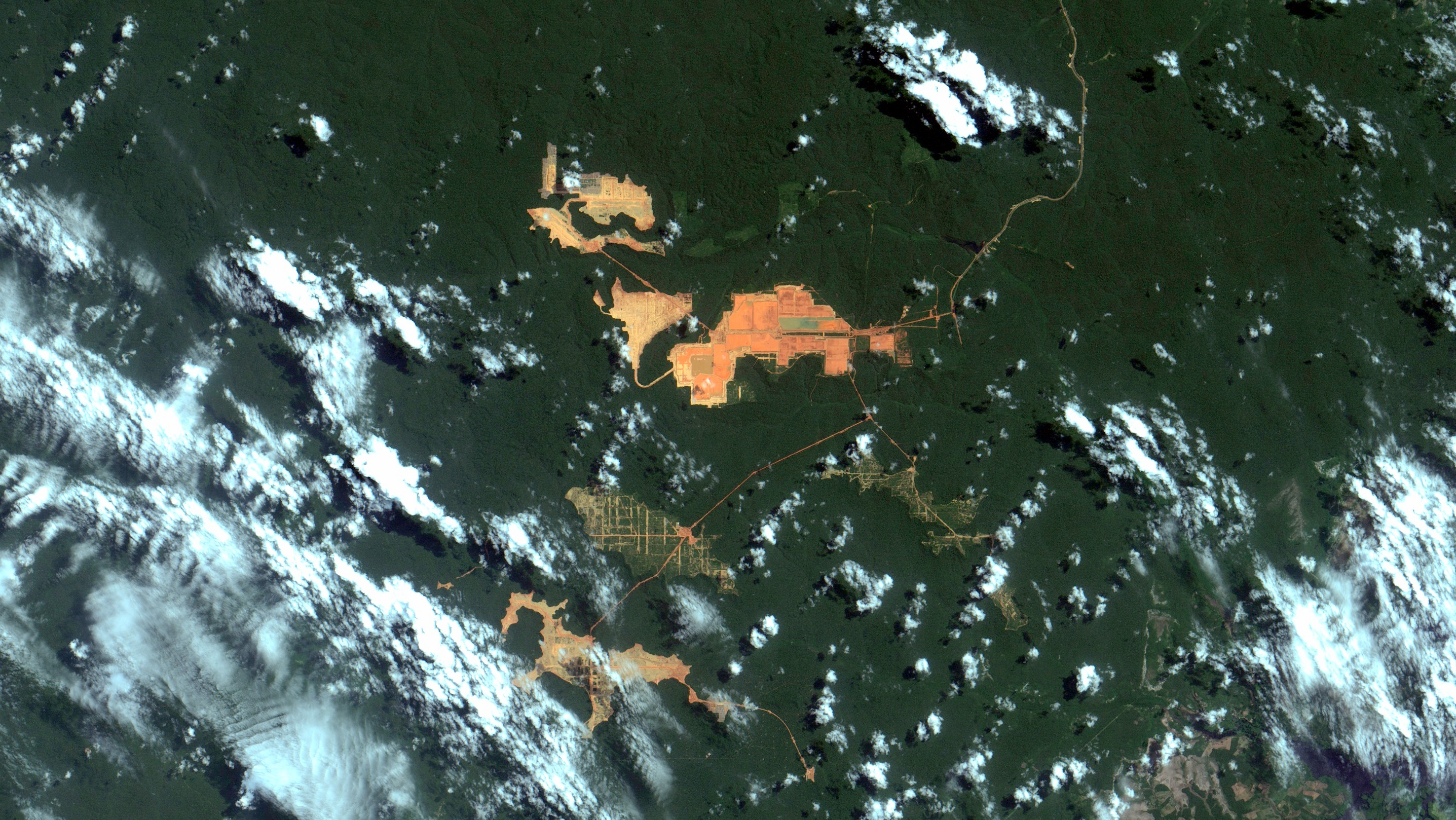 Em laranja barragens de rejeito e áreas de extração de bauxita da Mineração Rio do Norte (MRN), dentro da Floresta Nacional de Saracá-Taquera. Floresta amazônica em verde escuro. Maior produtora de bauxita do Brasil, a MRN extrai toda a sua produção de 18 milhões de toneladas por ano de bauxita da Flona; criada em 1989 pelo Decreto 98.704, que autoriza a continuidade das atividades minerais, ocorrendo desde 1979. A Norsk Hydro conta com 5 por cento de participação na MRN, mas a empresa tem um acordo de assumir 40 por cento da bauxita da Vale destas operações. A matéria prima é transportada por navio para a Hydro Alunorte, em Barcarena, Pará / In orange Mineração Rio do Norte ( MRN) bauxite mining areas and tailings dams, inside Brazilian Saracá-Taquera National Forest. Amazon tropical rain forest in dark green. Largest Brazilian bauxite producer, MRN mines all its ore production, 18 million tons a year, legally,from this forest. Norsk Hydro owns 5% of MRN, but has an agreement with Vale to get 40% of its bauxite there. Ore goes by boat to Hydro Alunorte, at Barcarena, Pará. bauxita #flona #norskhydro #tailings #alunorte #barcarena #alumínio #aluminum #aluminium #Amazonia #Amazon #bauxite #CBERS4 Imagem / Image CBERS4 MUX Mineração e depósito de rejeitos de bauxita na Flona Saracá-Taquera no Pará Coordenadas do centro da imagem / Image center: 1°40'52.9"S 56°24'57.5"W Data / Date: 07-08-2018 / 2018-07-08 RGB 765 (cor verdadeira / true color) Cena / Scene: 170 / 102 Autor / Author: Oton Barros (DSR/OBT/INPE) Imagem em HD / HD Image Visite-nos / Visit us